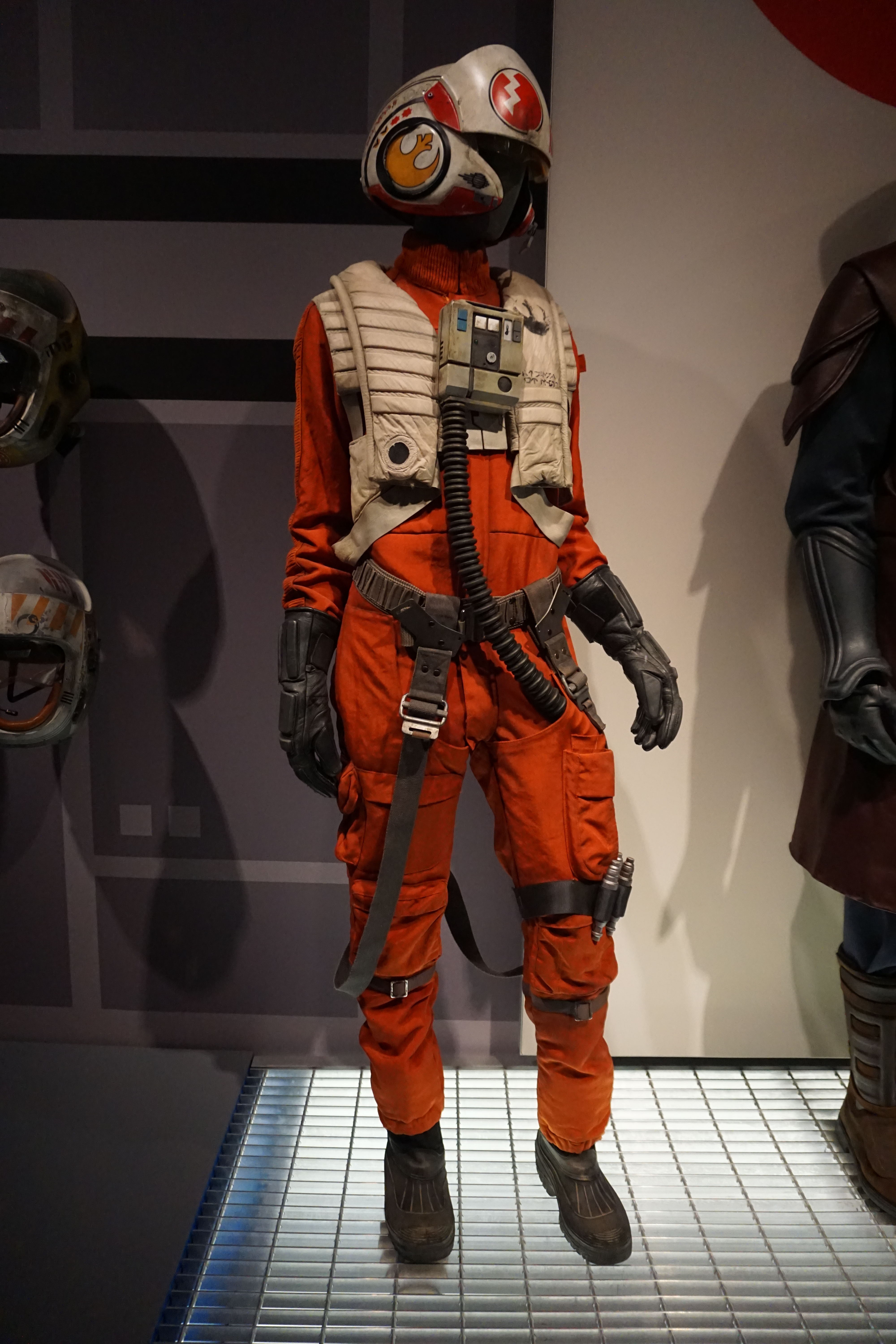 A Resistance fighter pilot's X-Wing jumpsuit from Star Wars: Episode VII – The Force Awakens on display at the Star Wars and the Power of Costume traveling exhibit at the Detroit Institute of Arts in Detroit, Michigan (United States).